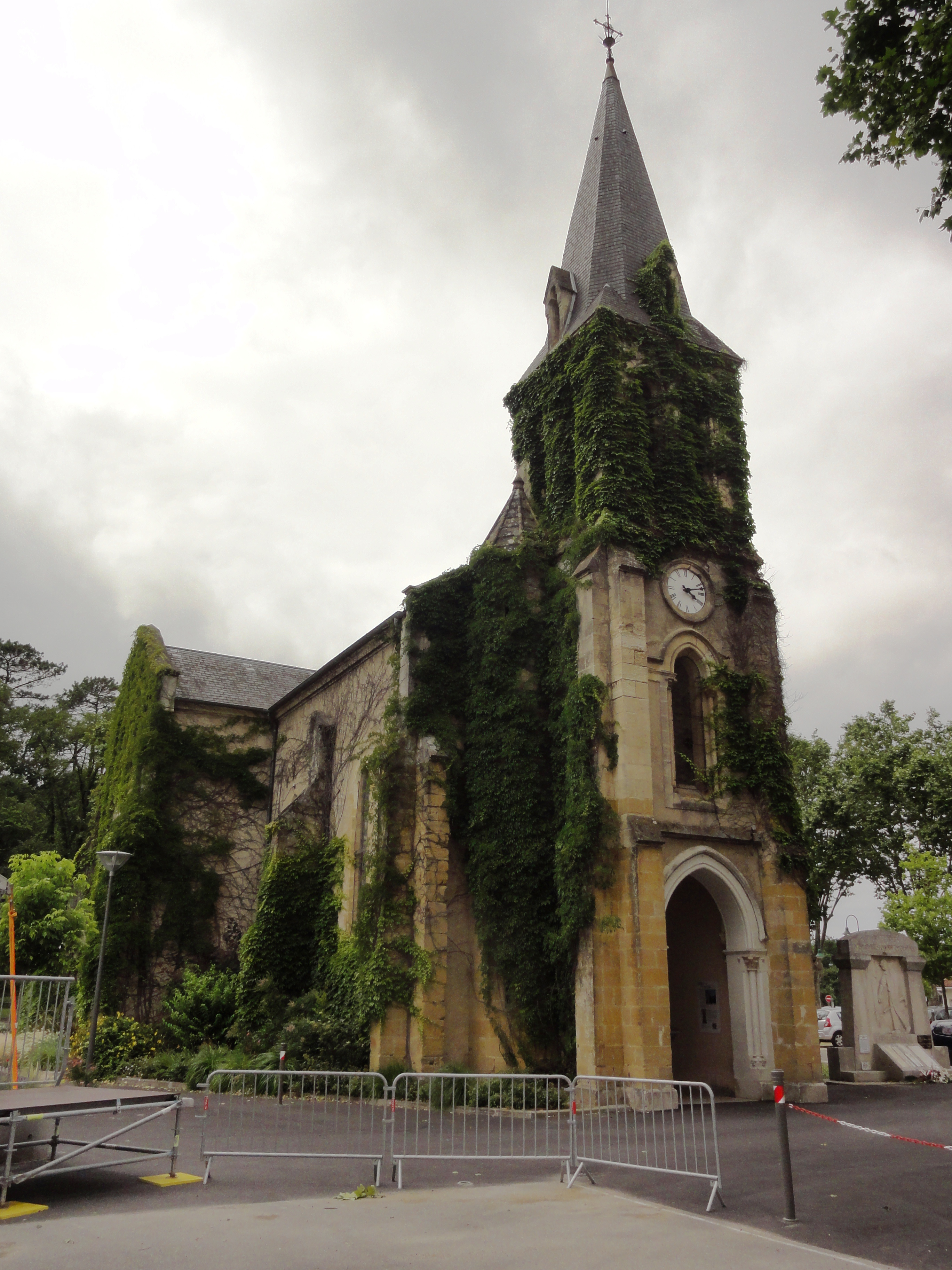 Labenne (Landes) église Saint Nicolas, extérieur